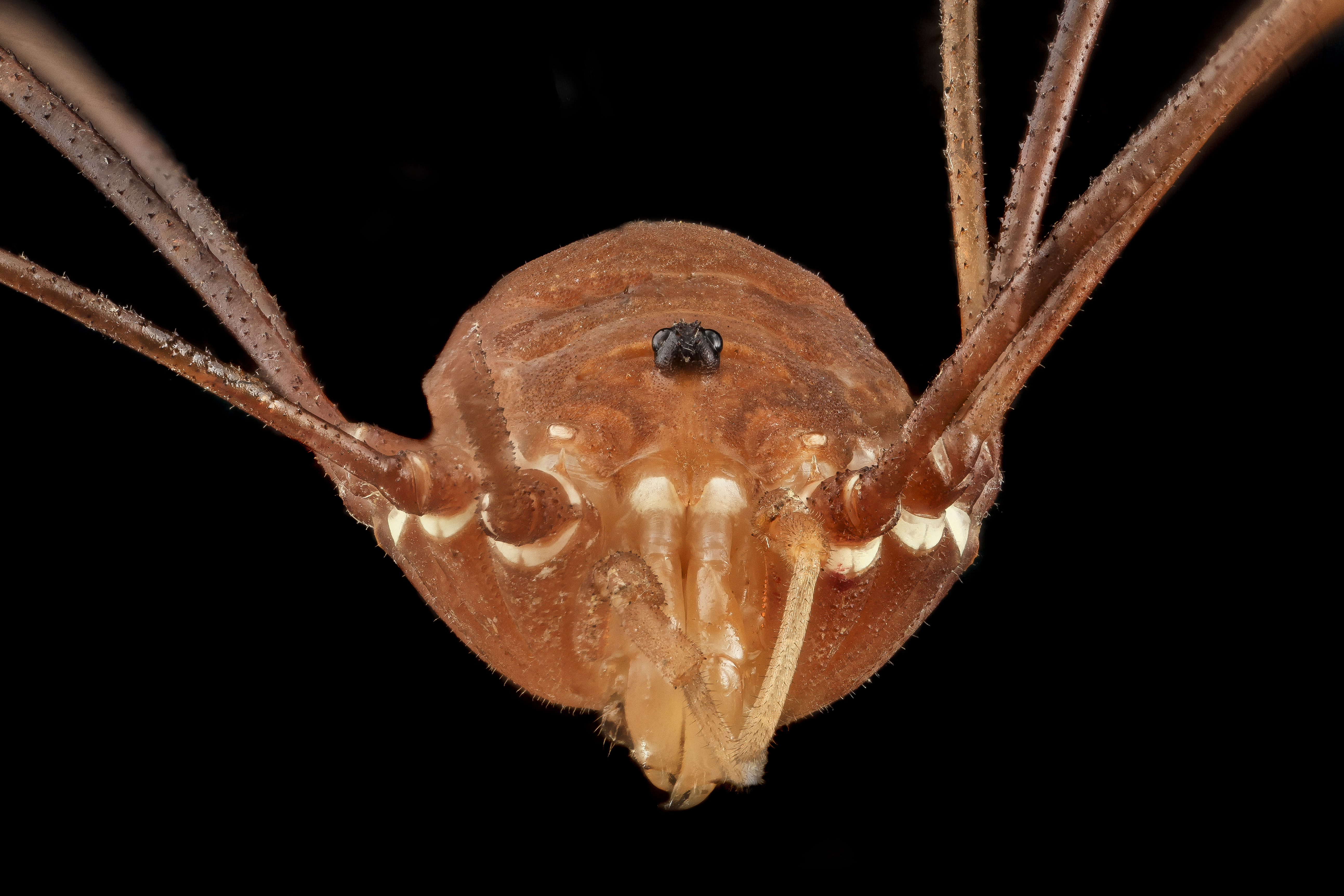 Beltsville, Maryland, Dejen Mengis collector, Leiobunum flavum, graciously determined by Jeff Shultz